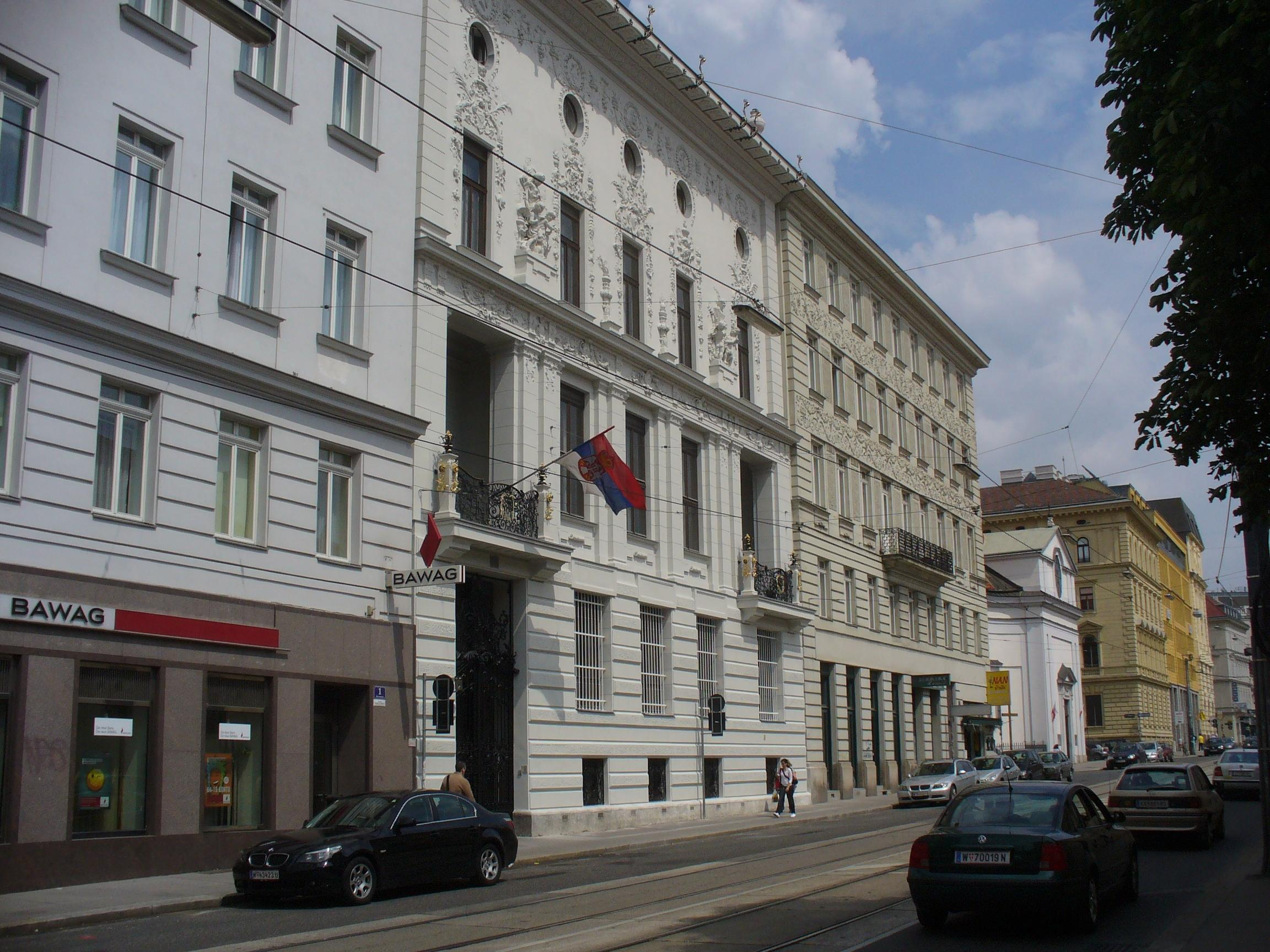 Palais Hoyos, Rennweg, Vienna